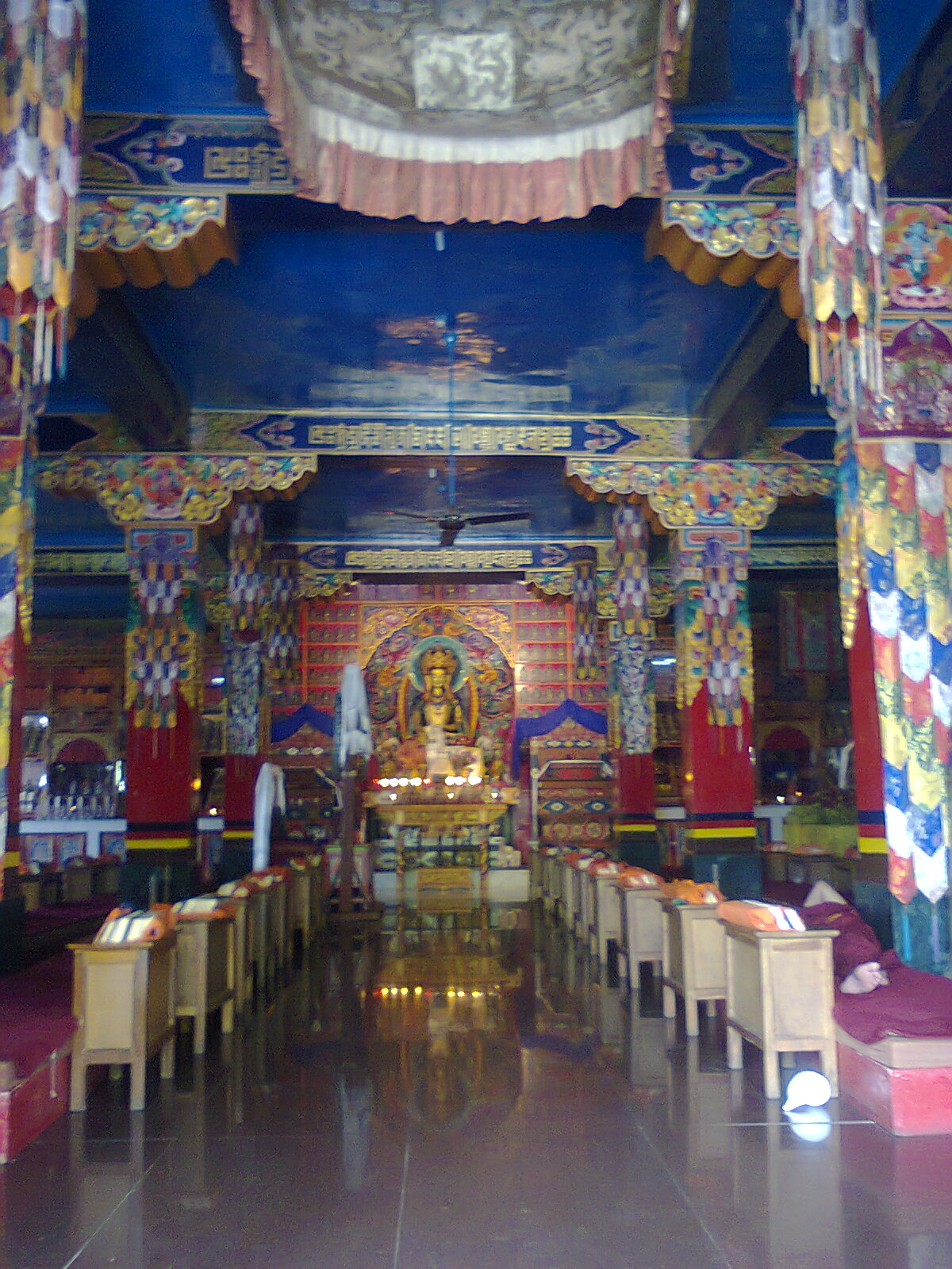 One of the oldest Bon Monasteries.